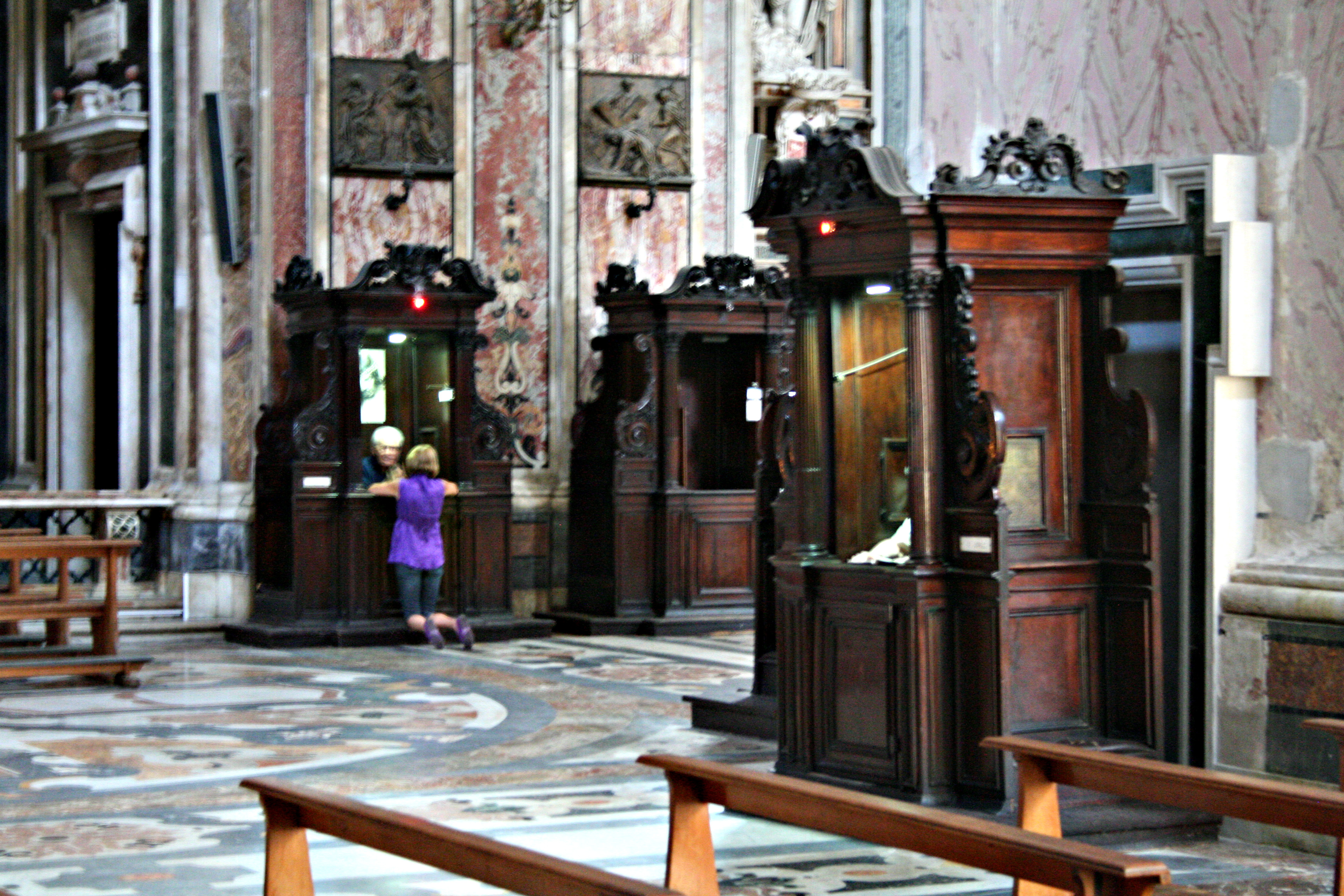 Confessionals - Church Gesu Nuovo - Naples